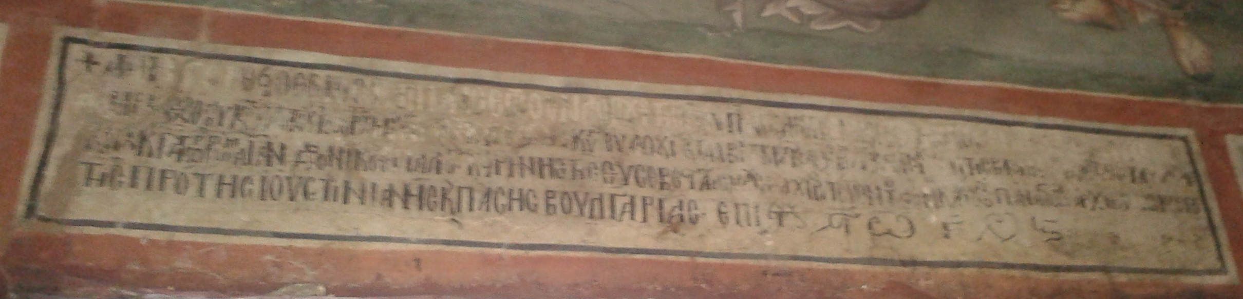 Saint Mary Perivleptos in Ohrid Inscription